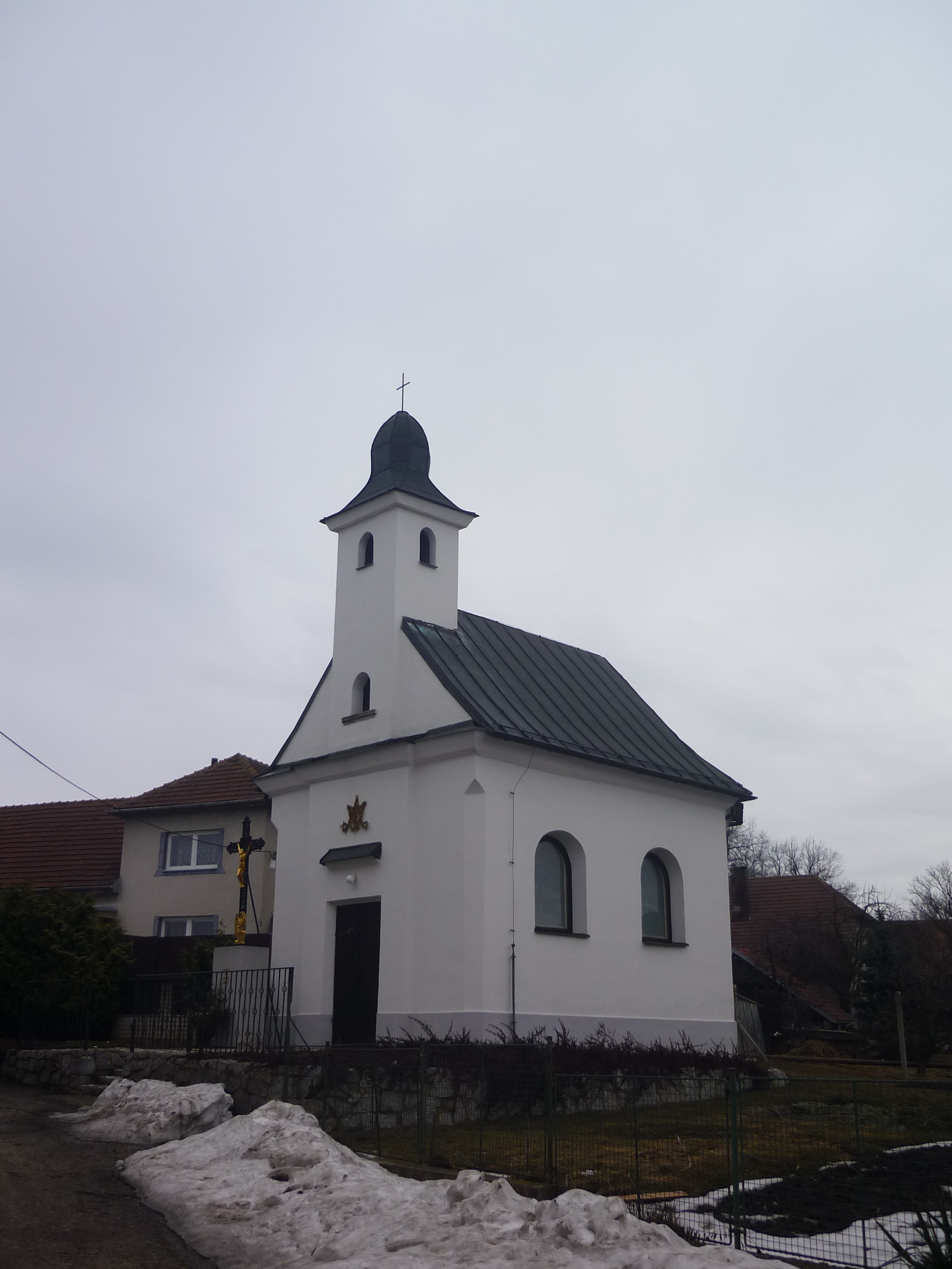 Chapel of St. Anne in Vídeň (Žďár nad Sázavou District)